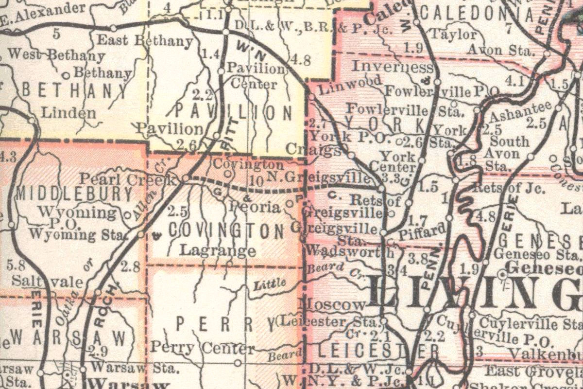 Greigsville and Pearl Creek Railroad section of Scarborough's New Railroad, Post Office, Township, and County Map of New York